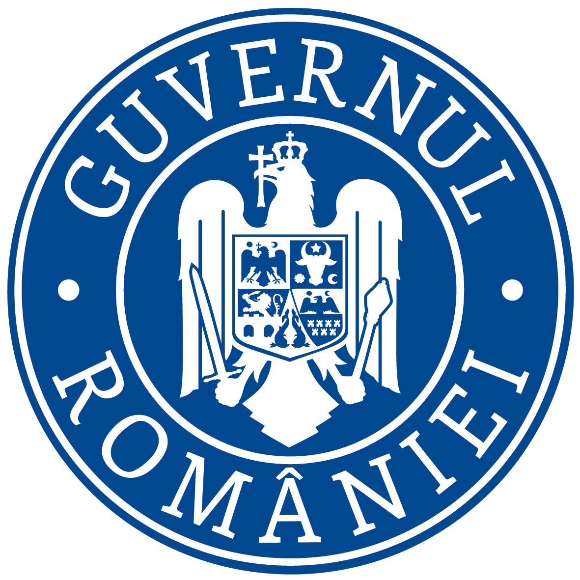 The logo of the Romanian Government, new version from 2016, with crown